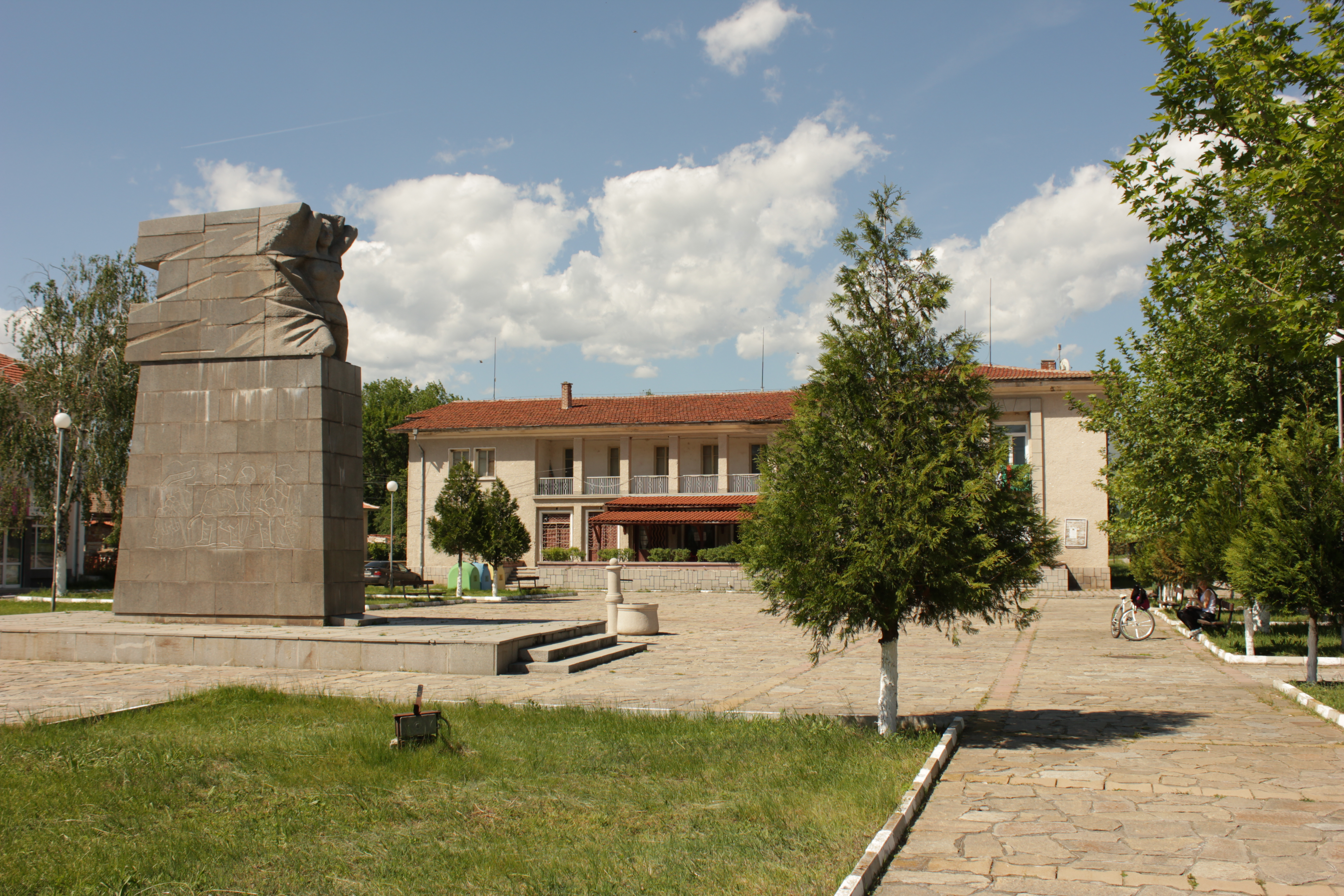 Voynyagovo war memorial